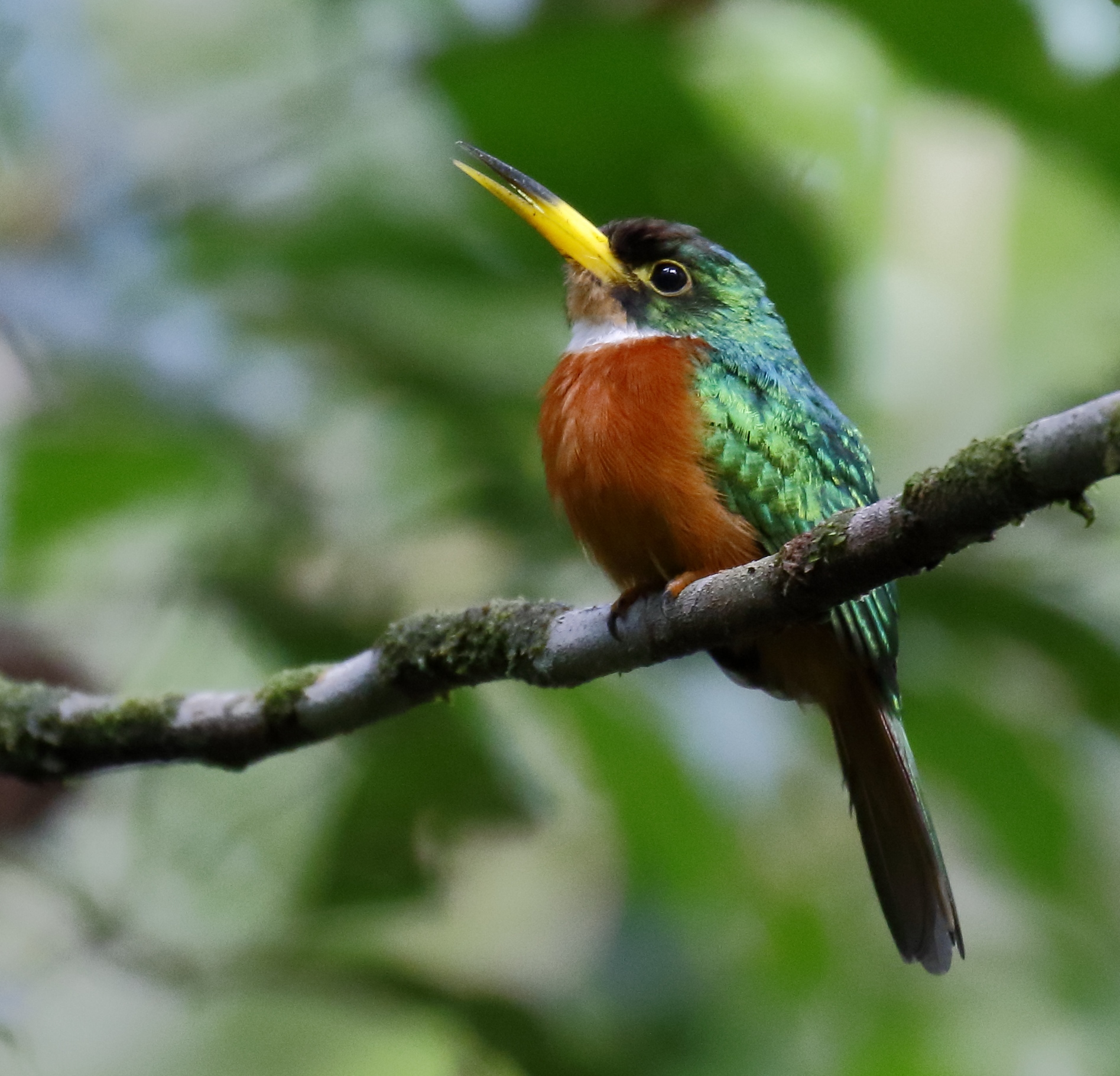 Yellow-billed jacamar (male) at Presidente Figueiredo, Amazonas, Brazil